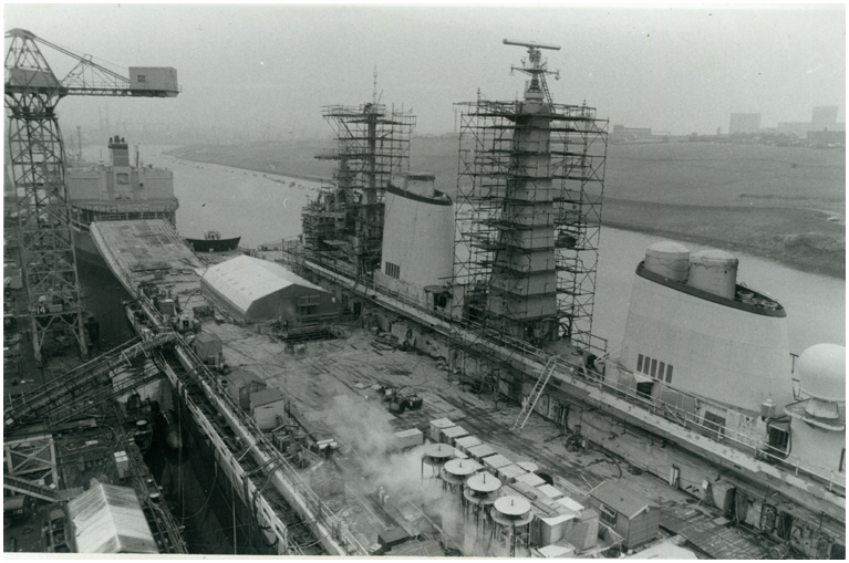 HMS Ark Royal was the former flagship of the Royal Navy. One of three Invincible class aircraft carriers she was affectionately known as The Mighty Ark. Her keel was laid by Swan Hunter at Wallsend on 7th December 1978 and she was launched on 20th June 1981 and completed in 1985. Major deployments included the Bosnian war (1993) and the invasion of Iraq (2003). More recently, she assisted in the repatriation of air travellers stranded by the 2010 volcanic eruption. Most photographs and images in this set are taken from the Swan Hunter Collection held by Tyne and Wear Archives Service. Ref: TWAS:ds-swh-4-ph-5-109-41 (Copyright) We're happy for you to share this digital image within the spirit of The Commons. Please cite 'Tyne & Wear Archives & Museums' when reusing. Certain restrictions on high quality reproductions and commercial use of the original physical version apply though; if you're unsure please . To purchase a hi-res copy please quoting the title and reference number.